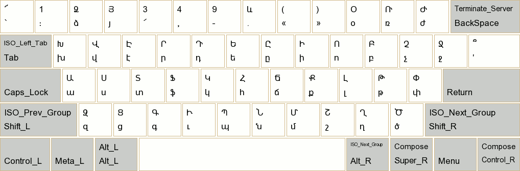 The Western Armenian keyboard layout that ships with Windows XP; it has recently been included in Linux, via .